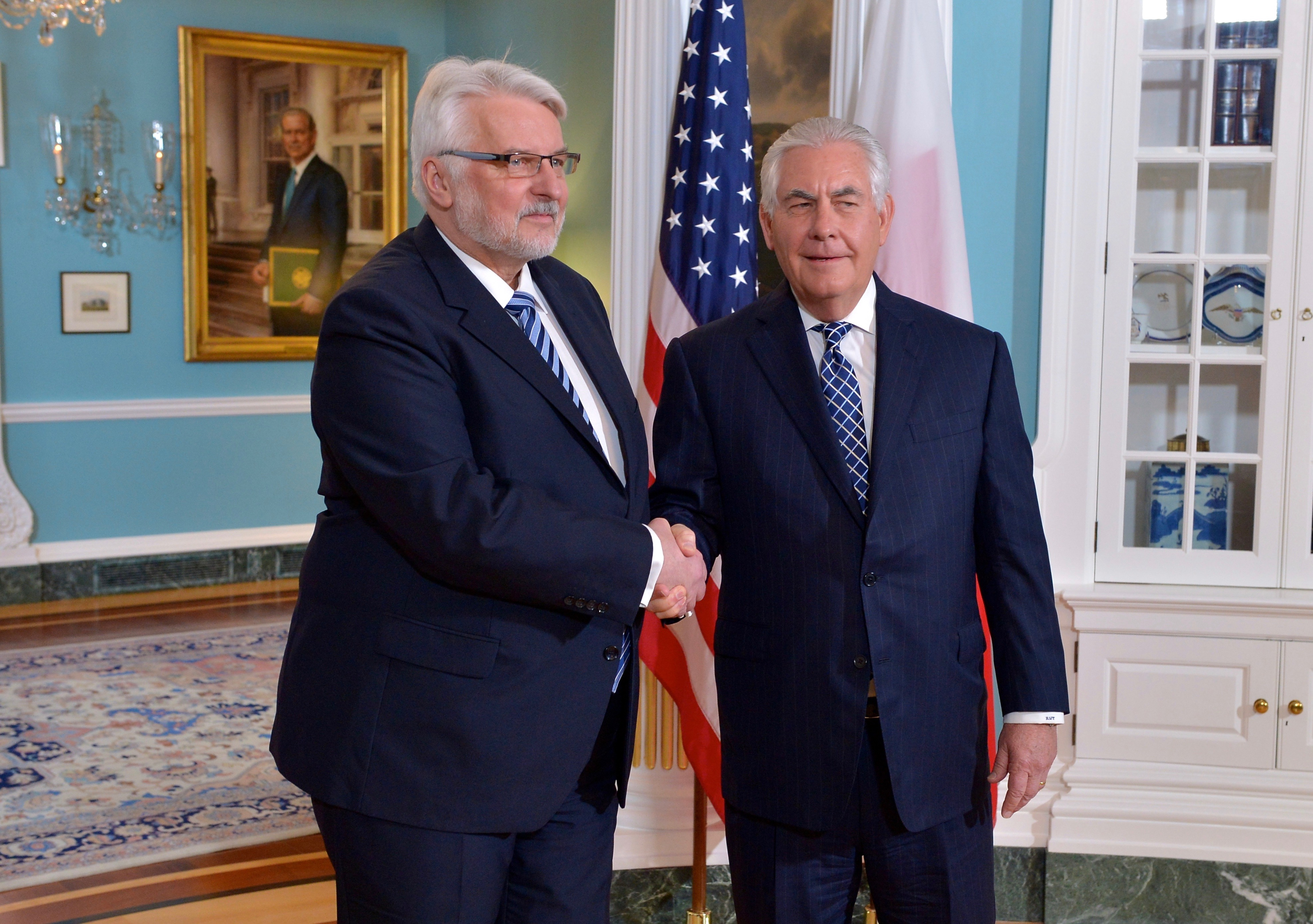 U.S. Secretary of State Rex Tillerson shakes hands with Polish Foreign Minister Witold Waszczykowski at the U.S. Department of State in Washington, D.C., on April 19, 2017. [State Department photo/ Public Domain]